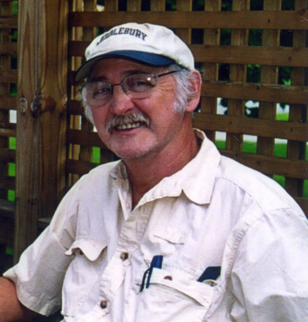 Photo of Arnold R. Highfield